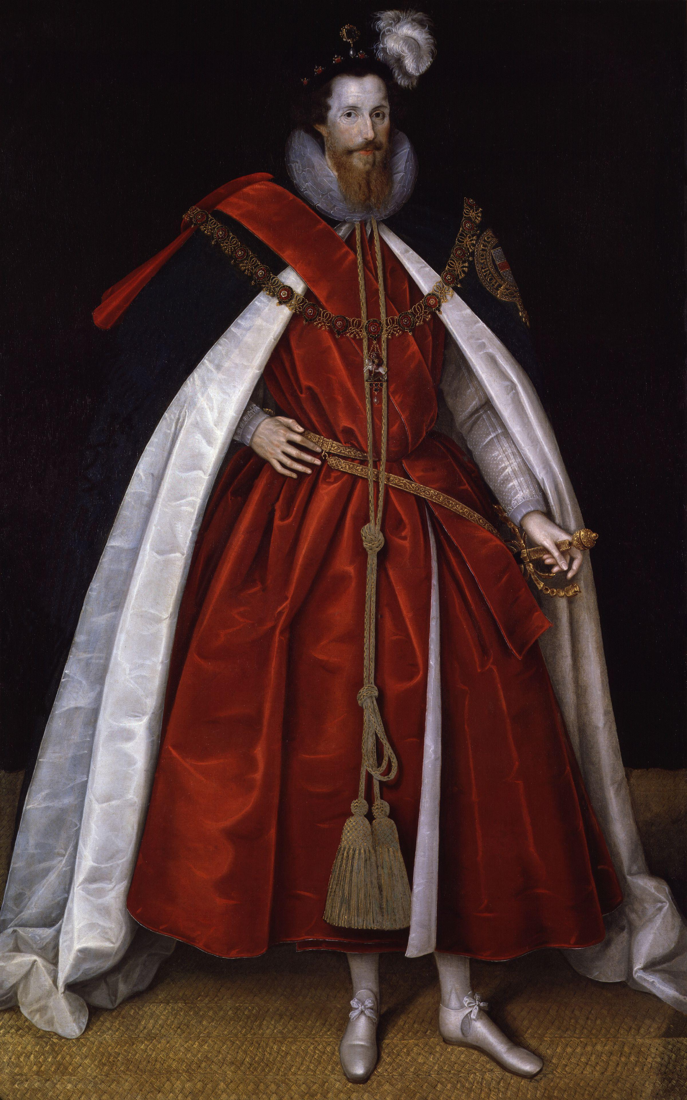 All images in this batch have a known author, but have manually examined for strong evidence that the author was dead before 1939, such as approximate death dates, birth dates, floruit dates, and publication dates.